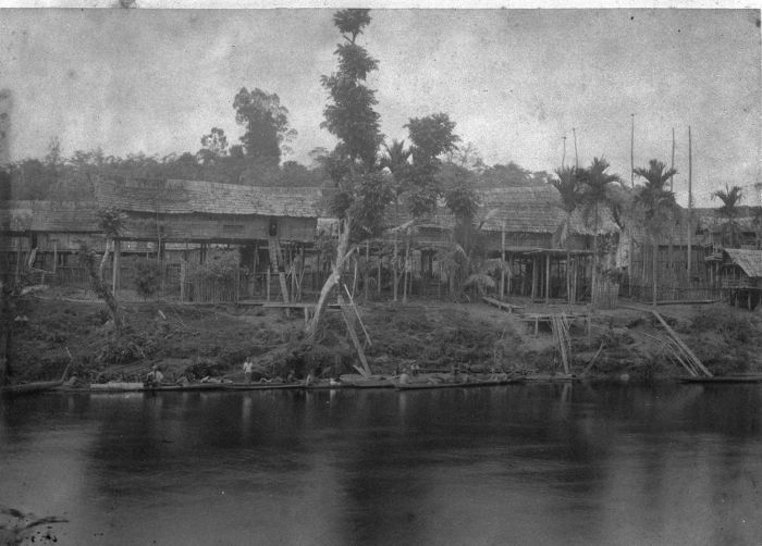 View from the Kahajan-river on the Dayak village Tumbanganoi, Central-Borneo.